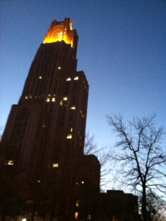 PITT "Victory Lights" are displayed the evening of wins by the football team and wins by all Olympic sport.